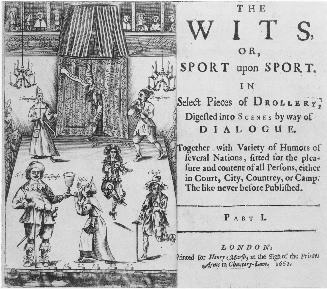 Frontispiece to The Wits, showing theatrical drolls (characters taken from different Jacobean plays, including Shakespeare, played together) in Restoration Theatre in England